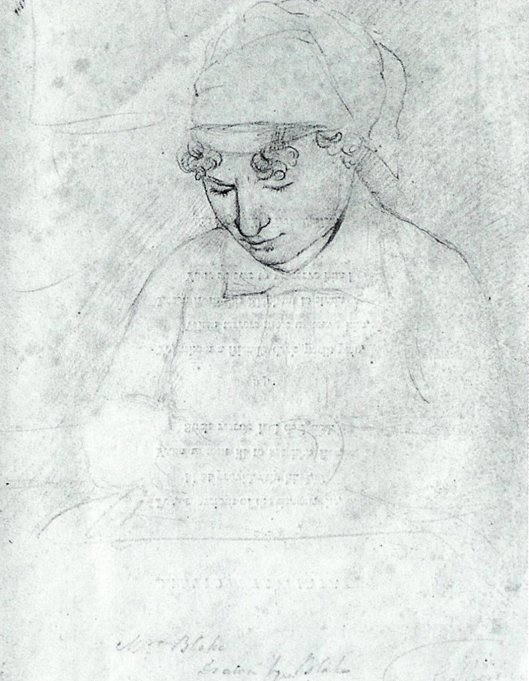 William Blake - Catherine Blake c 1805